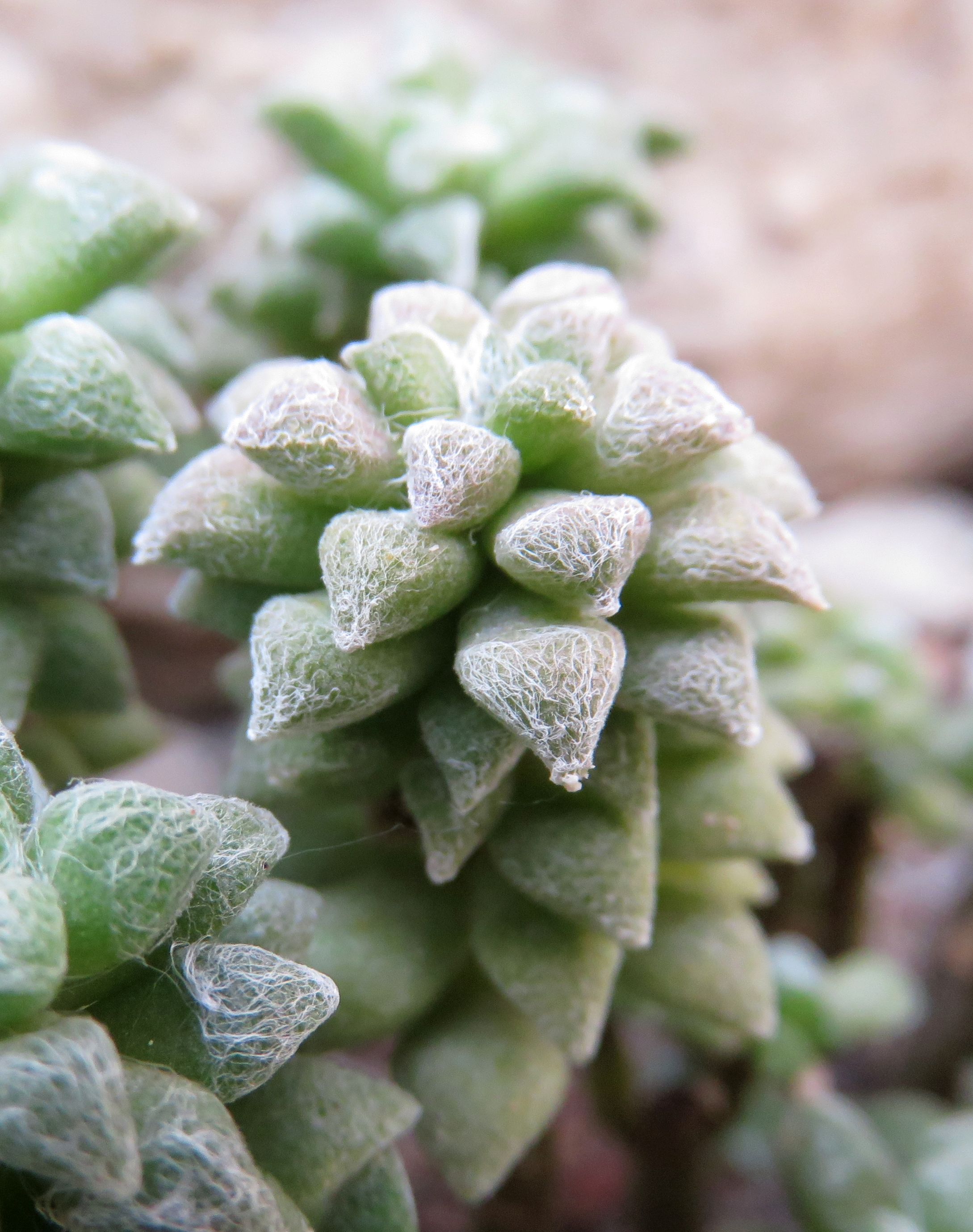 Anacampseros arachnoides, Zoological and botanical garden Plzen.